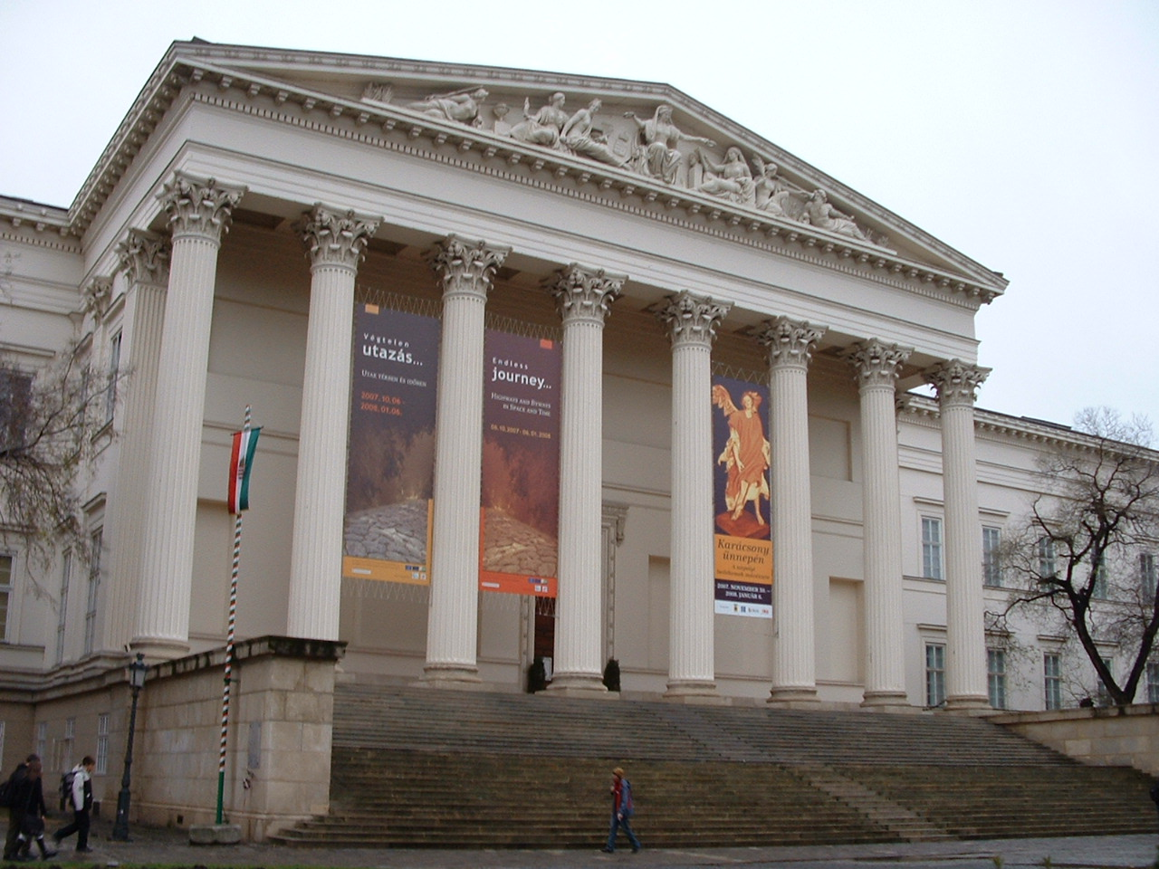 The Hungarian National Museum in Budapest